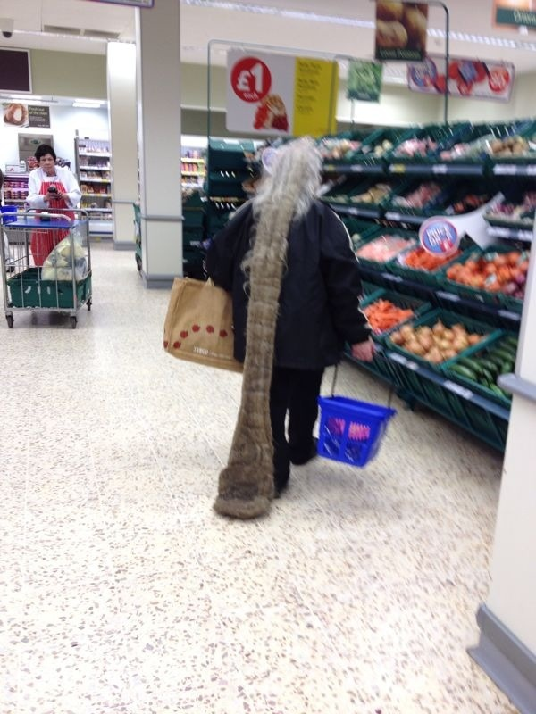 A modern day Polish plait, as seen in the vegetable aisle of Tesco, January 2012